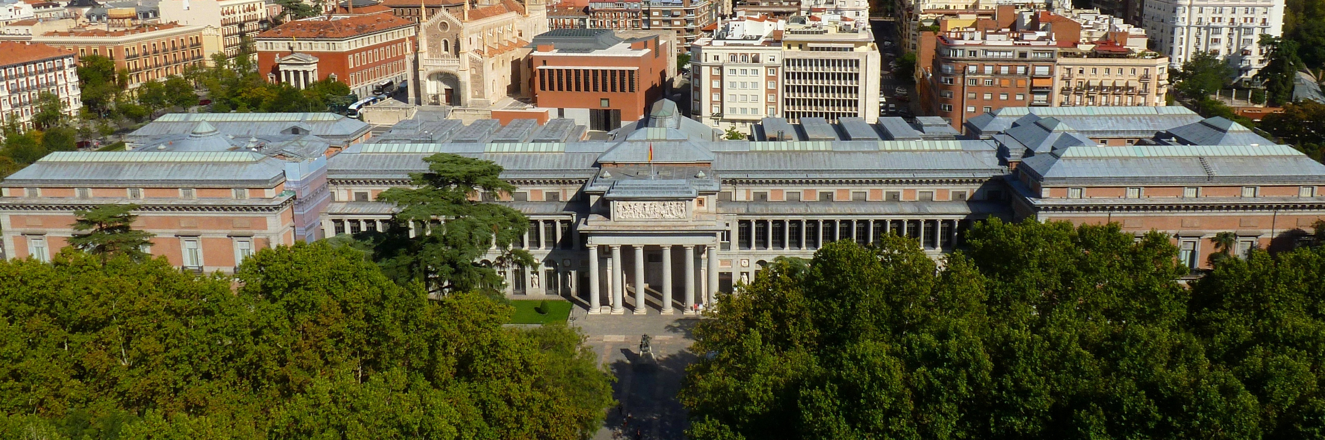 Overview of the Prado Museum.